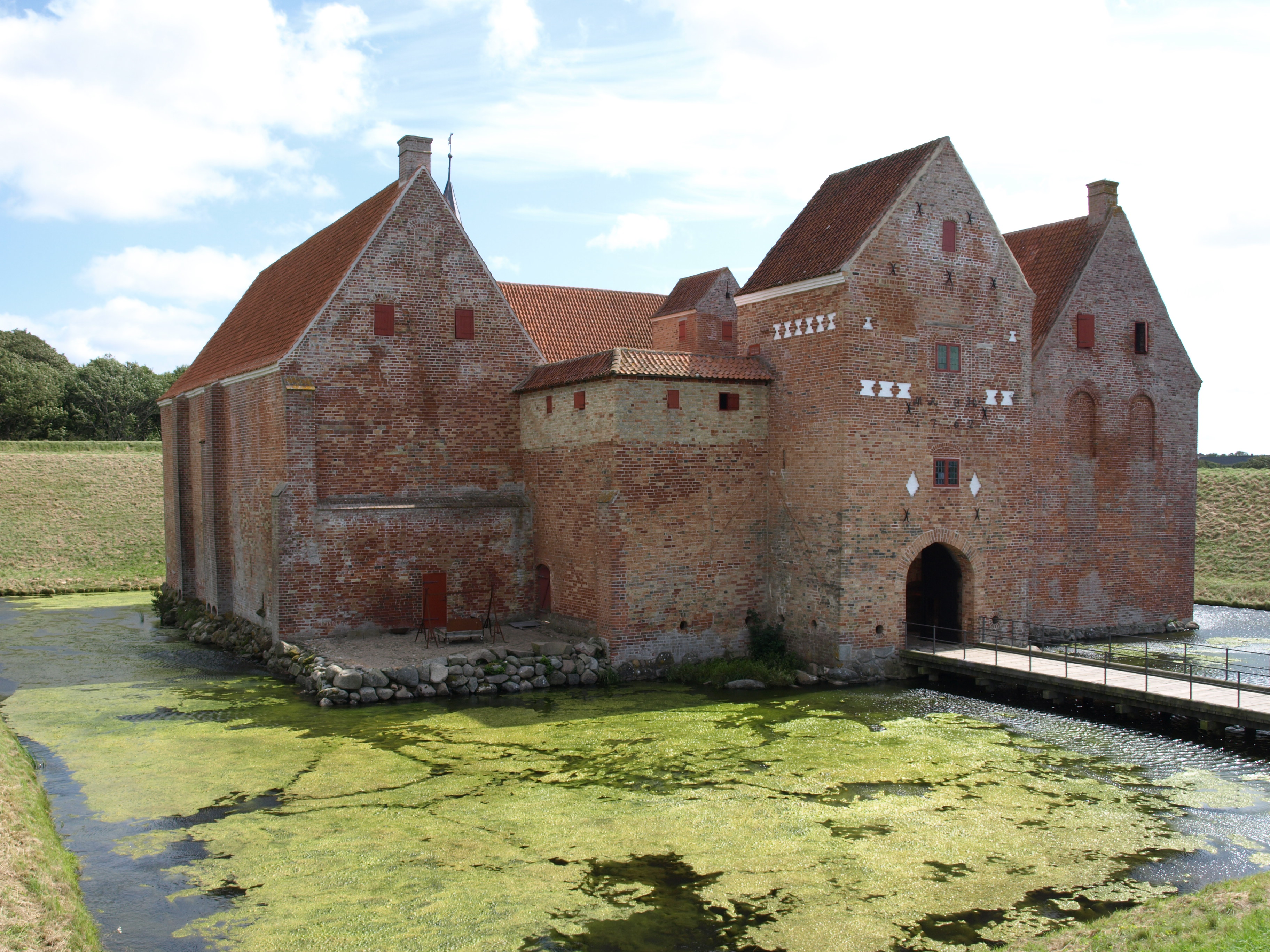 Spøttrup Borg